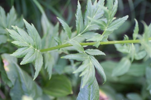 Broad-leaved Yarrow (Achillea macrophylla), a photography originating of the internet site The accord of the autor, H. Brisse, is here.